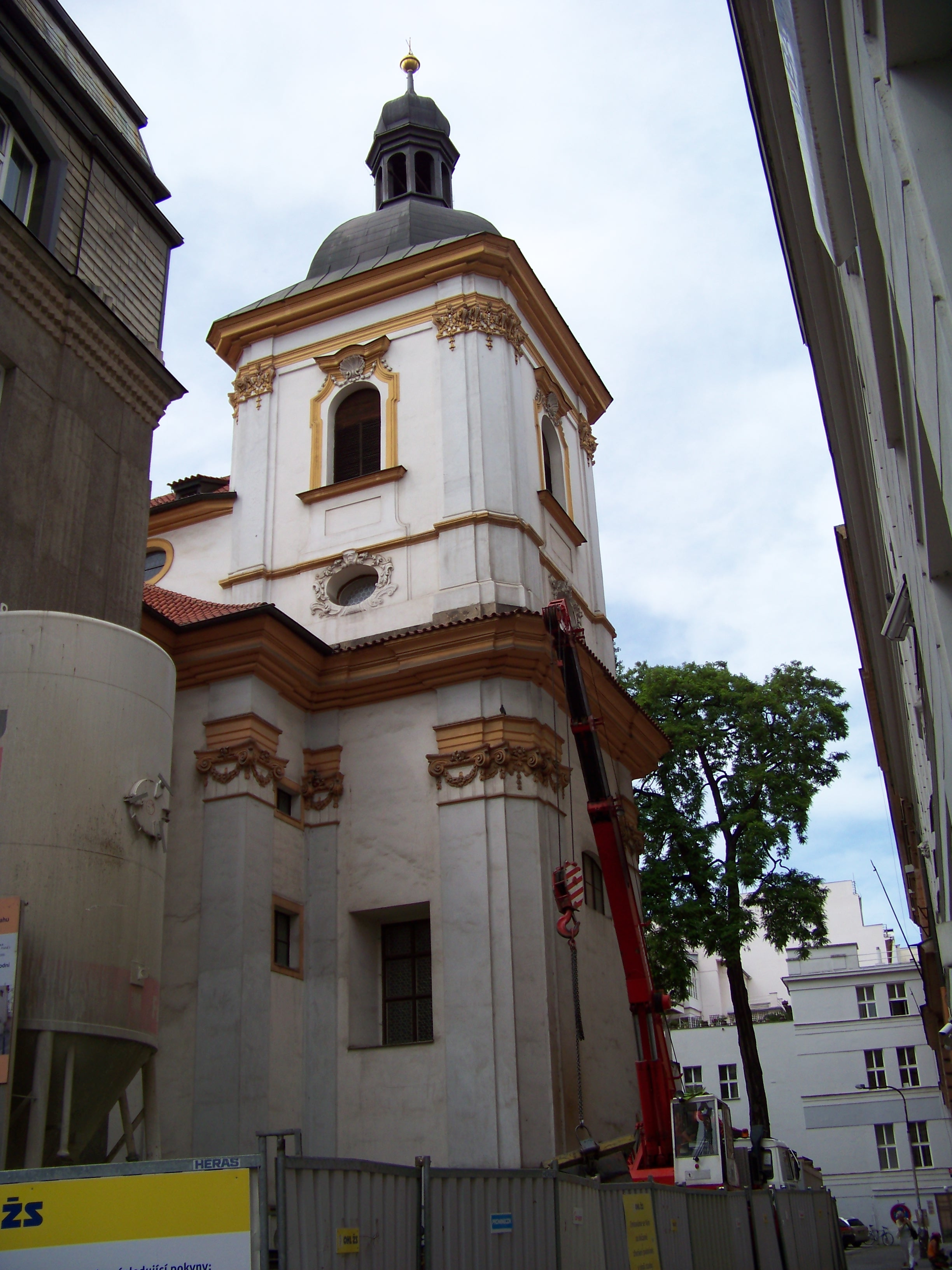 New Town, Prague, the Czech Republic. M. Rettigové street, the Holy Trinity Church.